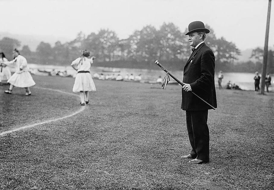 Bain News Service, publisher. Louis Harvy Chalif circa 1913 [no date recorded on caption card] 1 negative : glass ; 5 x 7 in. or smaller. Notes: Title from unverified data provided by the Bain News Service on the negatives or caption cards. Forms part of: George Grantham Bain Collection (Library of Congress). Format: Glass negatives. Repository: Library of Congress, Prints and Photographs Division, Washington, D.C. 20540 USA, General information about the Bain Collection is available at Persistent URL: Call Number: LC-B2- 2741-7